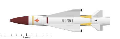 Illustration of a Sea Wolf missile